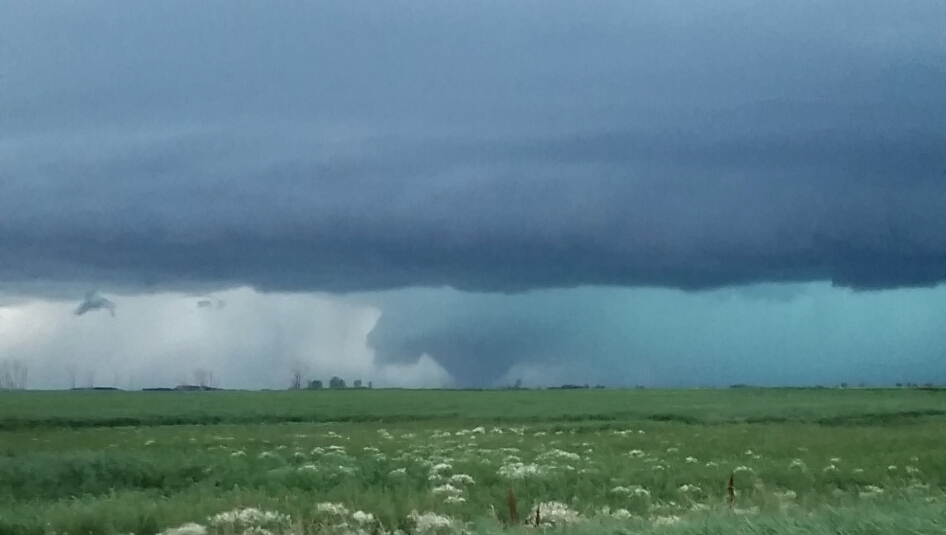 Violent wedge tornado near Tilston, Manitoba on July 27th, 2015 at approximately 8:49 pm local time.